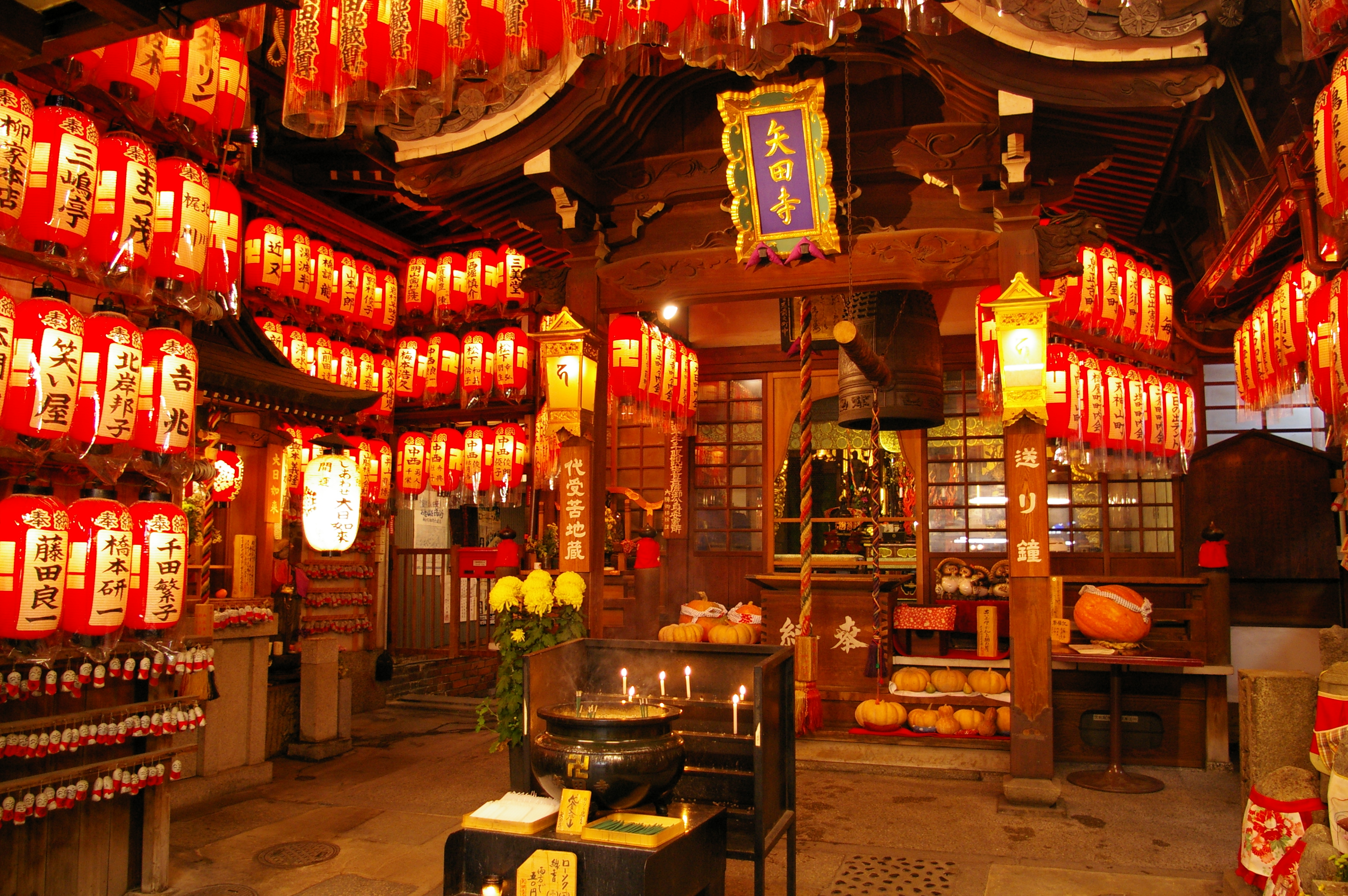 Yatadera-temple, Buddhist temple devoted to Jizo in Kyoto.